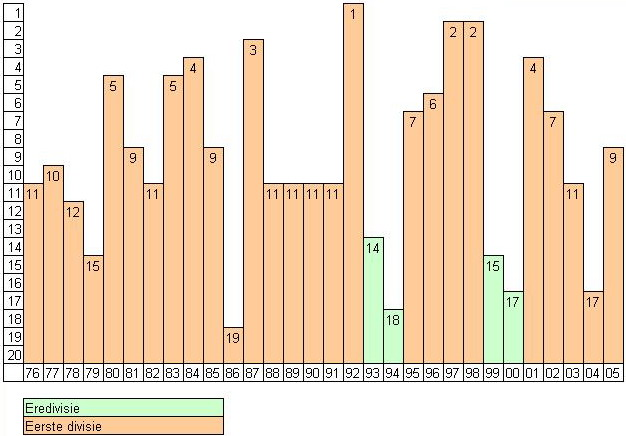 Dutch league positions of Cambuur, last 30 seasons